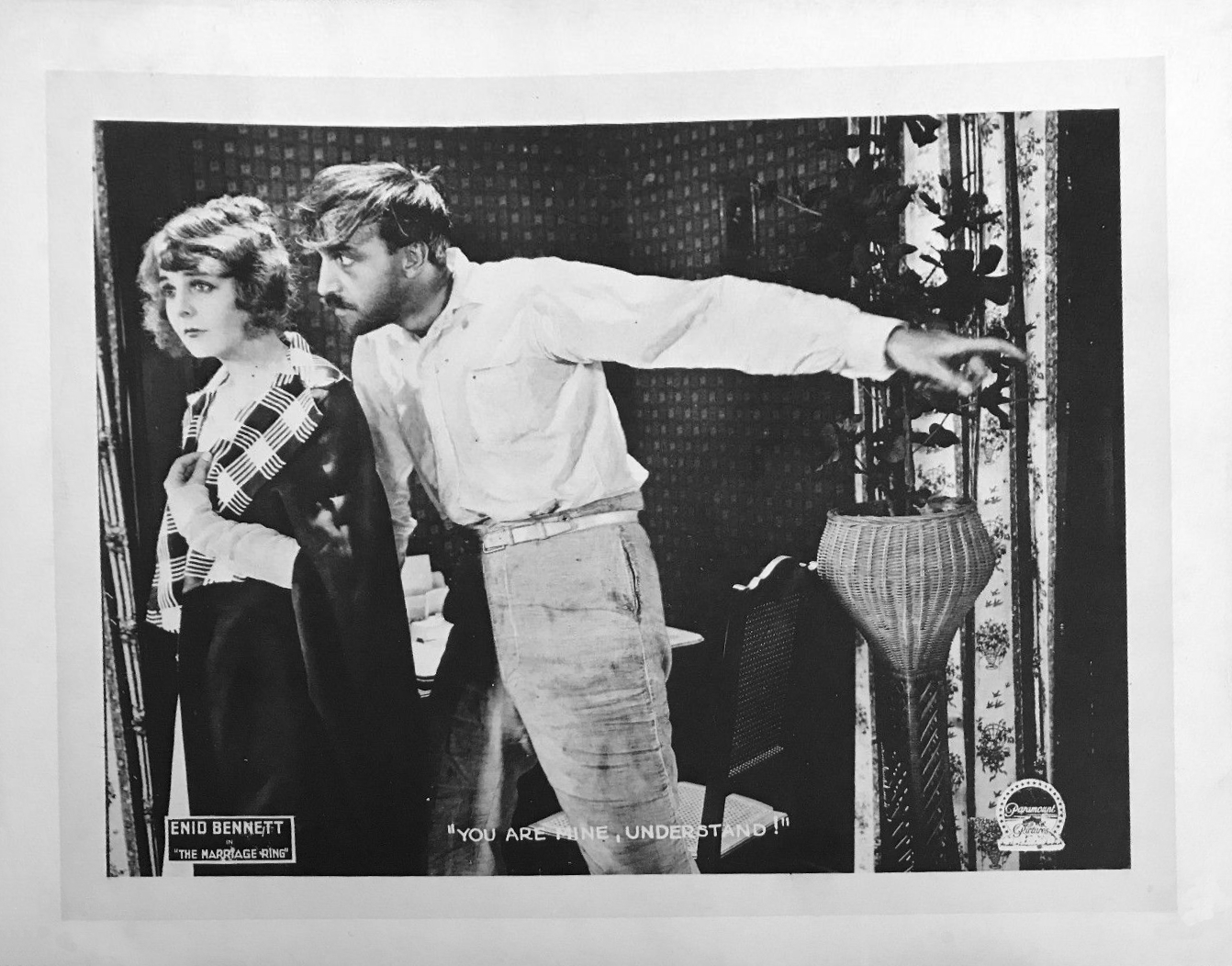 This is a lobby card for the American silent drama film The Marriage Ring (1918).